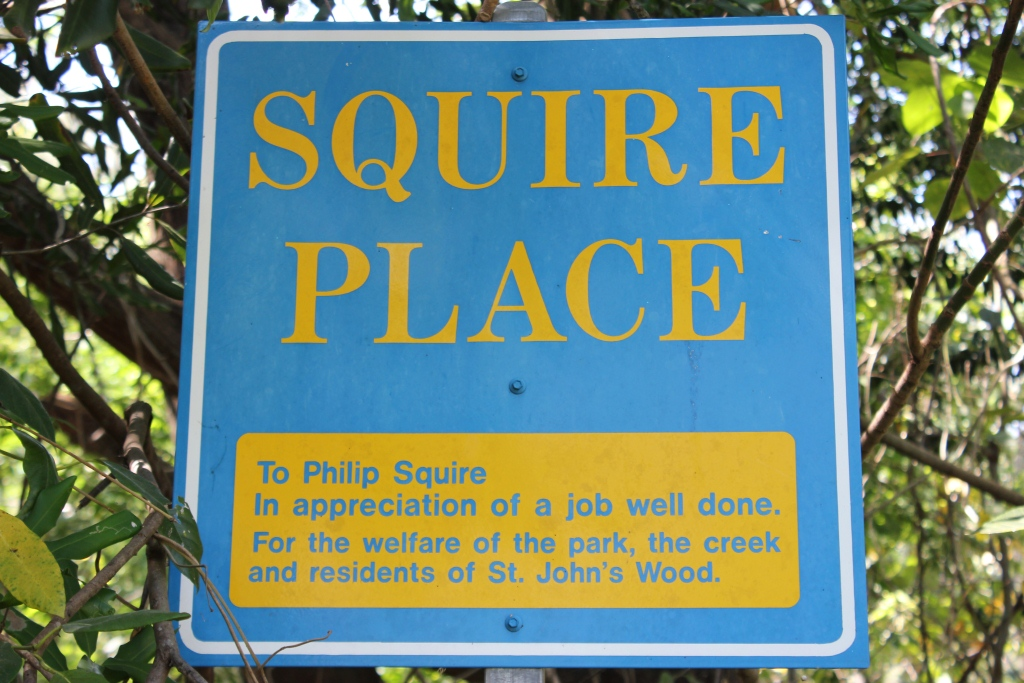 Community appreciation sign for the efforts of Philip Squire, local resident of St Johns Wood Queensland, who worked tirelessly to restore and plant out the bank of Enoggera Creek in St Johns Wood.